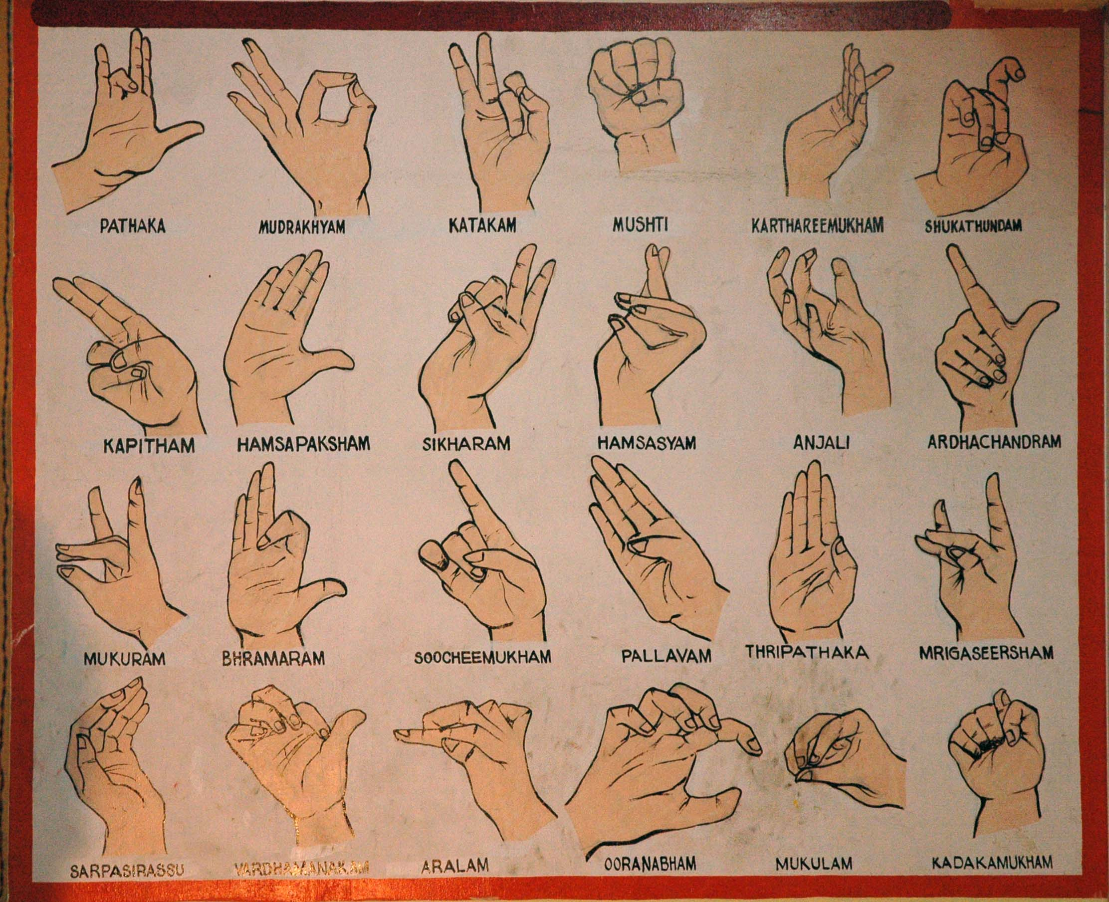 Hand positions used in the Kathakali dance performance in the theatre at Ernakulam, Kochi/Cochin of Cochin Cultural Centre, (Samgamam, Manikath Road).